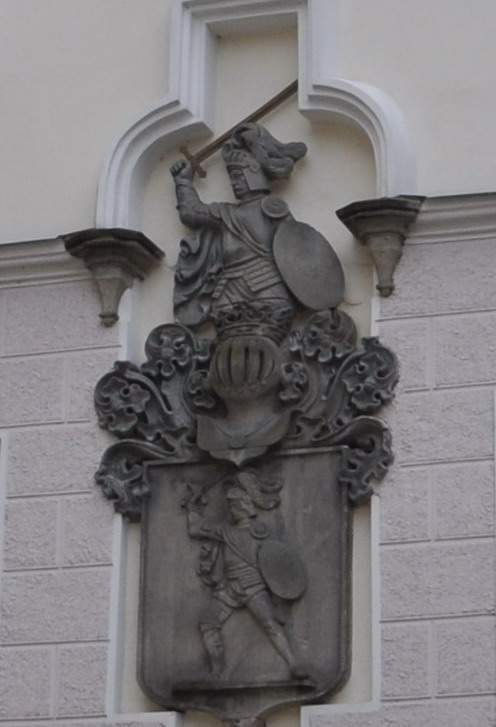 Coat of arms of the bohemian noble Jaroslav Lev z Rožmitála a z Blatné in the castle of Blatná